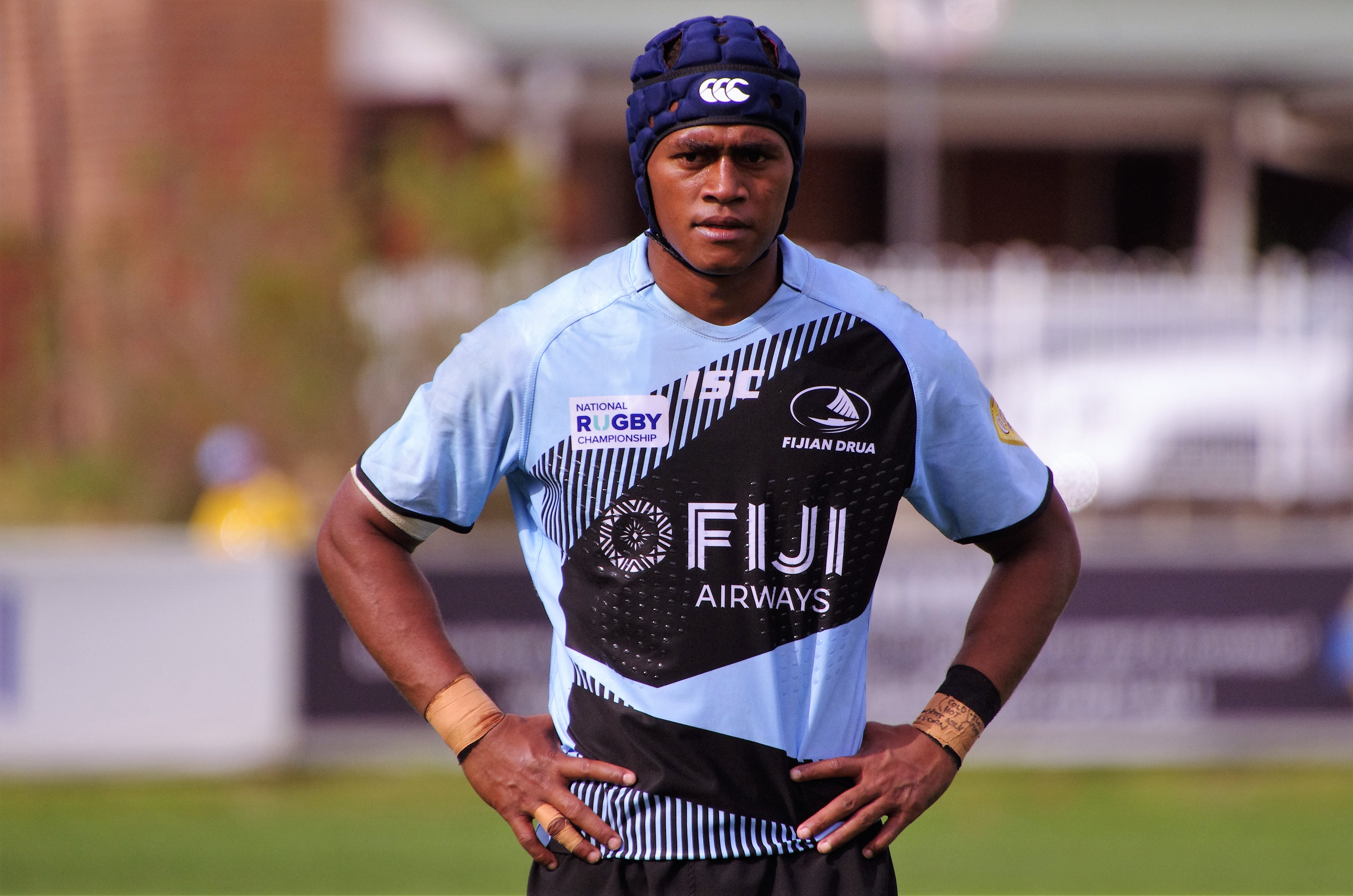 Alifereti Veitokani playing for Fijian Drua against the Greater Sydney Rams in the 2017 National Rugby Championship at T G Millner Field.